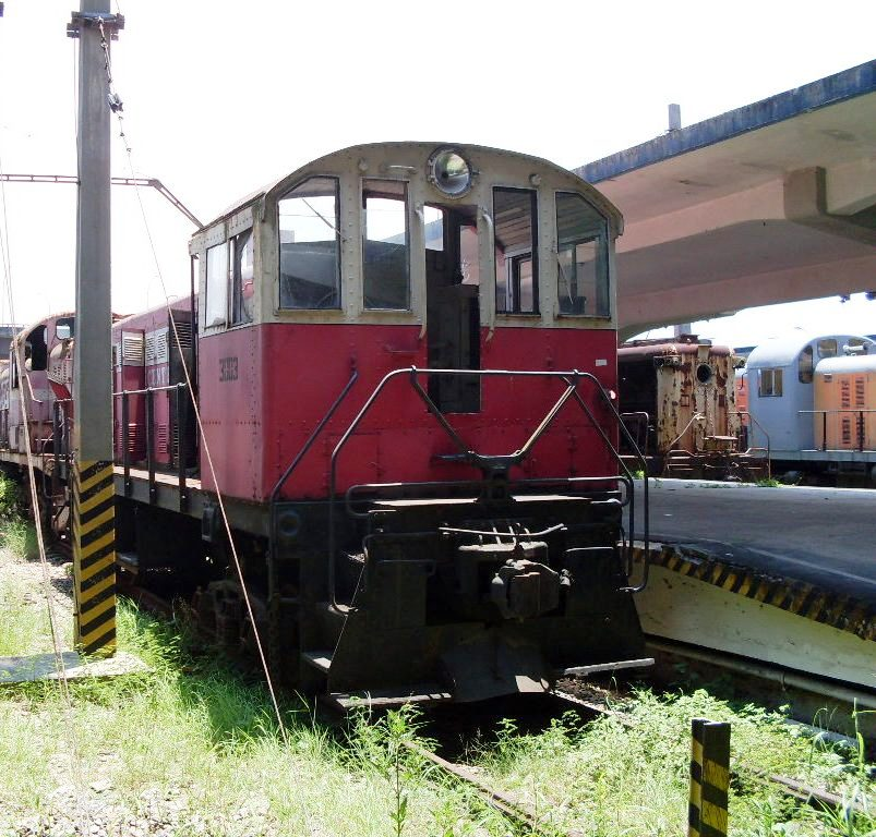 Diesel-Electric Locomotive ALCO S1 # 3003 - built for EFCB in the 40s. It is still preserved at the Barão Mauá Station - Rio de Janeiro-RJ-Brasil.